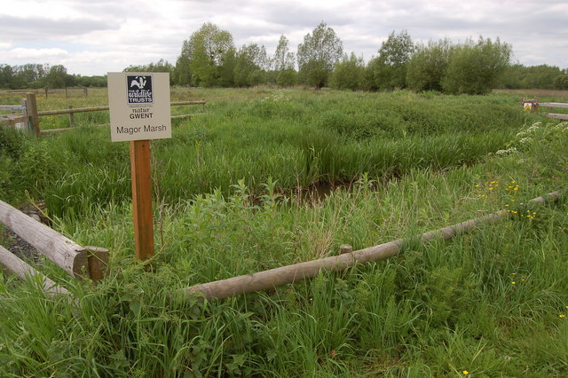 Magor Marsh Nature Reserve in mid-May View looks westwards across the Magor Marsh Nature Reserve administered by the Gwent Wildlife Trust.